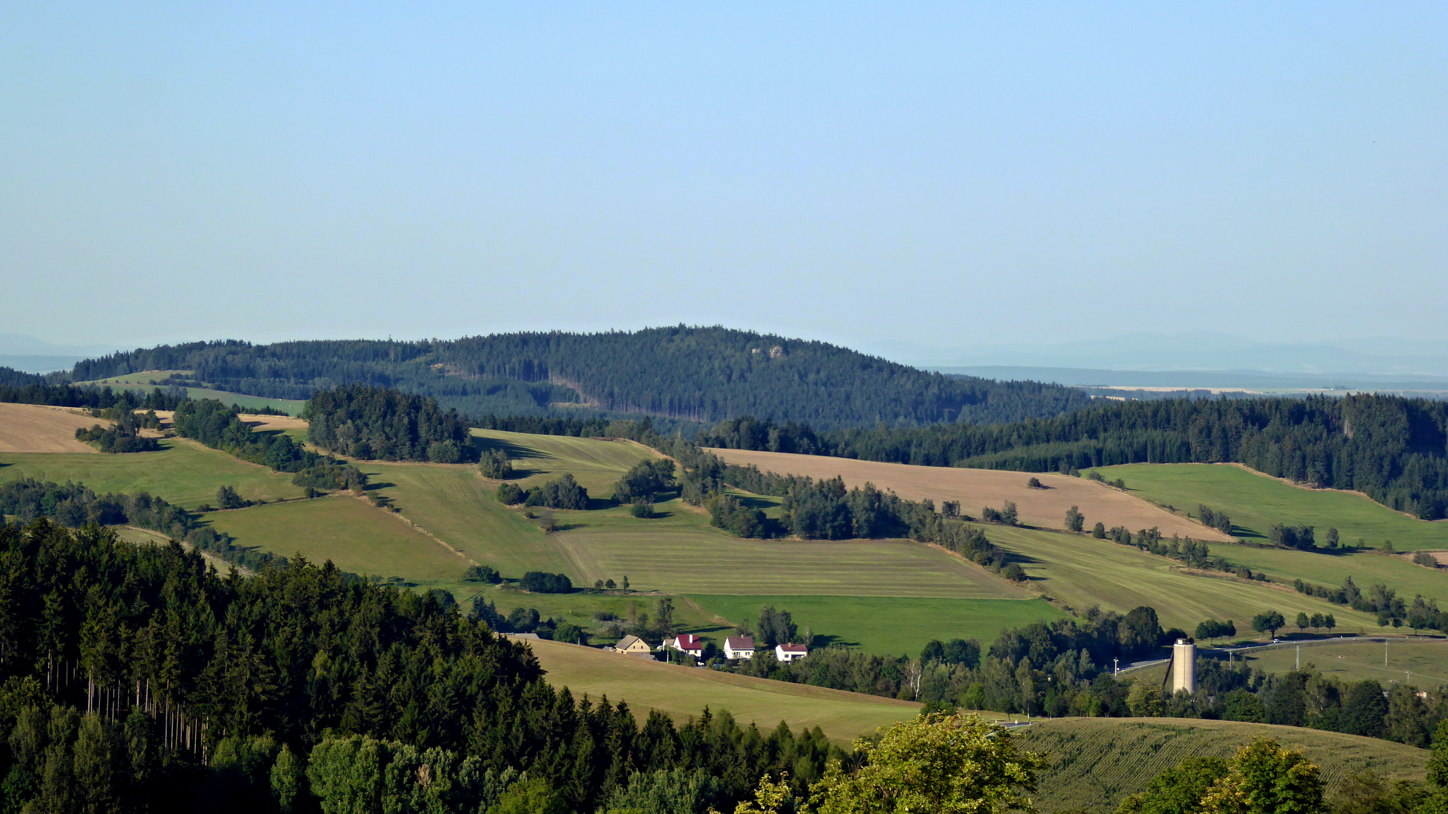 Shape or appearance of earth surface, exactly the face of Earth, in one word georelief in of part of the "Pohledeckoskalská" Highlands. View from the slope of the "Kamenice" hill (780 m above sea level) in the northeast direction to the peak of "Prosíčka" (739.4 m above sea level), in the middle photo. Photo-location: Czechia, "Vysočina" Region, village "Roženecké Paseky" (part of municipality "Věcov"), "Pohledeckoskalská" Highlands (30°). The rocks modeling surface forms of the earth's crust, is part of the litosphere of the Earth. Georelief is very complicated, the upper surface forms soil cover (pedosphere) of different thickness. In many places, rock outputs of varying sizes and heights appear. The georelief is broken down by height in to two basic types, are it lowlands or highlands and also subtypes, for example a plains, a land knoll hills (czech landscape of small hills, hilly country), a highlands, a mountains and big mountains. In regional divide are types of georelief localized into territorial geomorphological units. In the Czech Republic there is a division: province, system, sub-system, whole (in territory complex), part of whole (of complex) and the district. The "Pohledeckoskalská" Highland is a type of rugged highland at altitudes of 395-822 metres forming a geomorphological district.